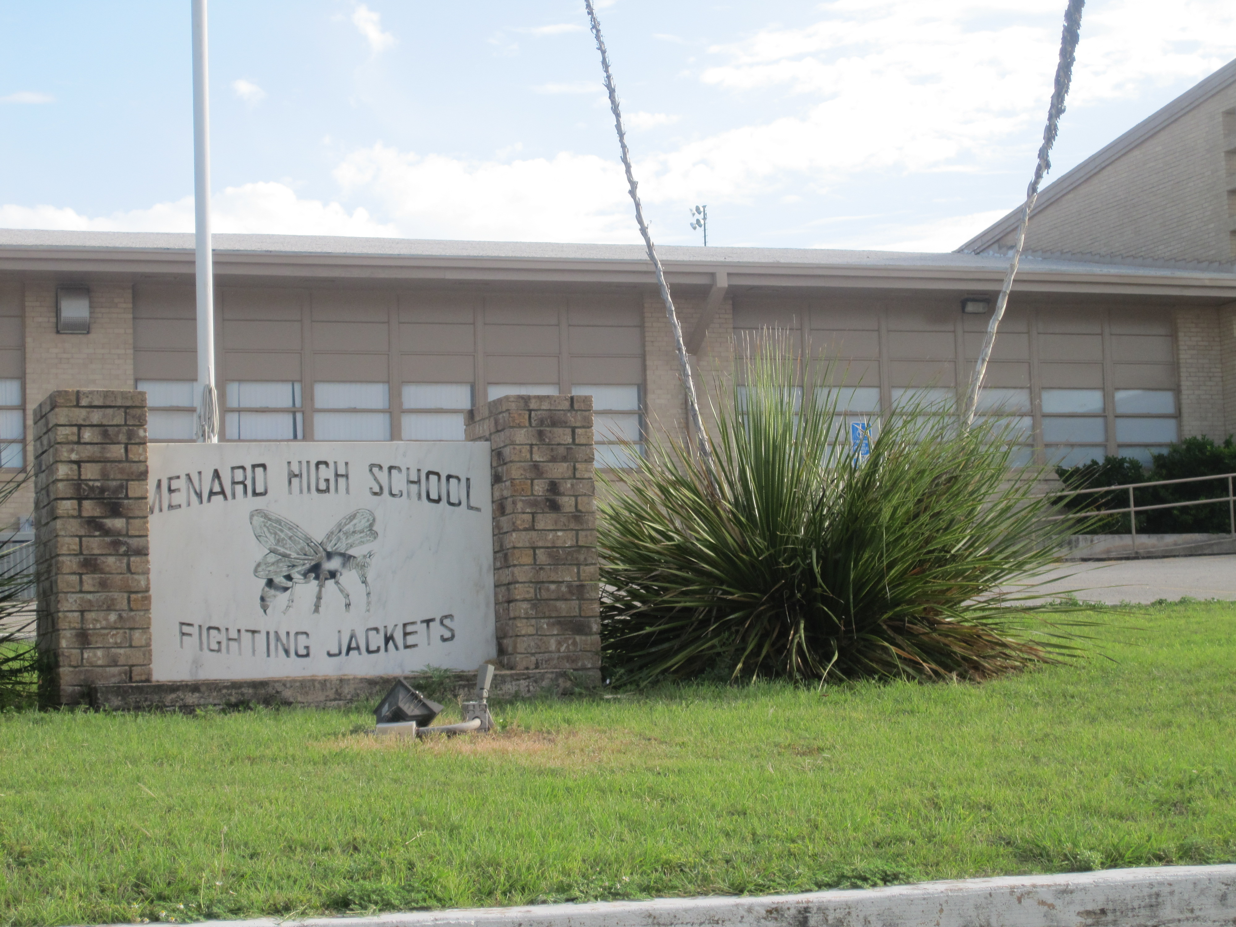 I took photo with Canon camera in Menard, TX.